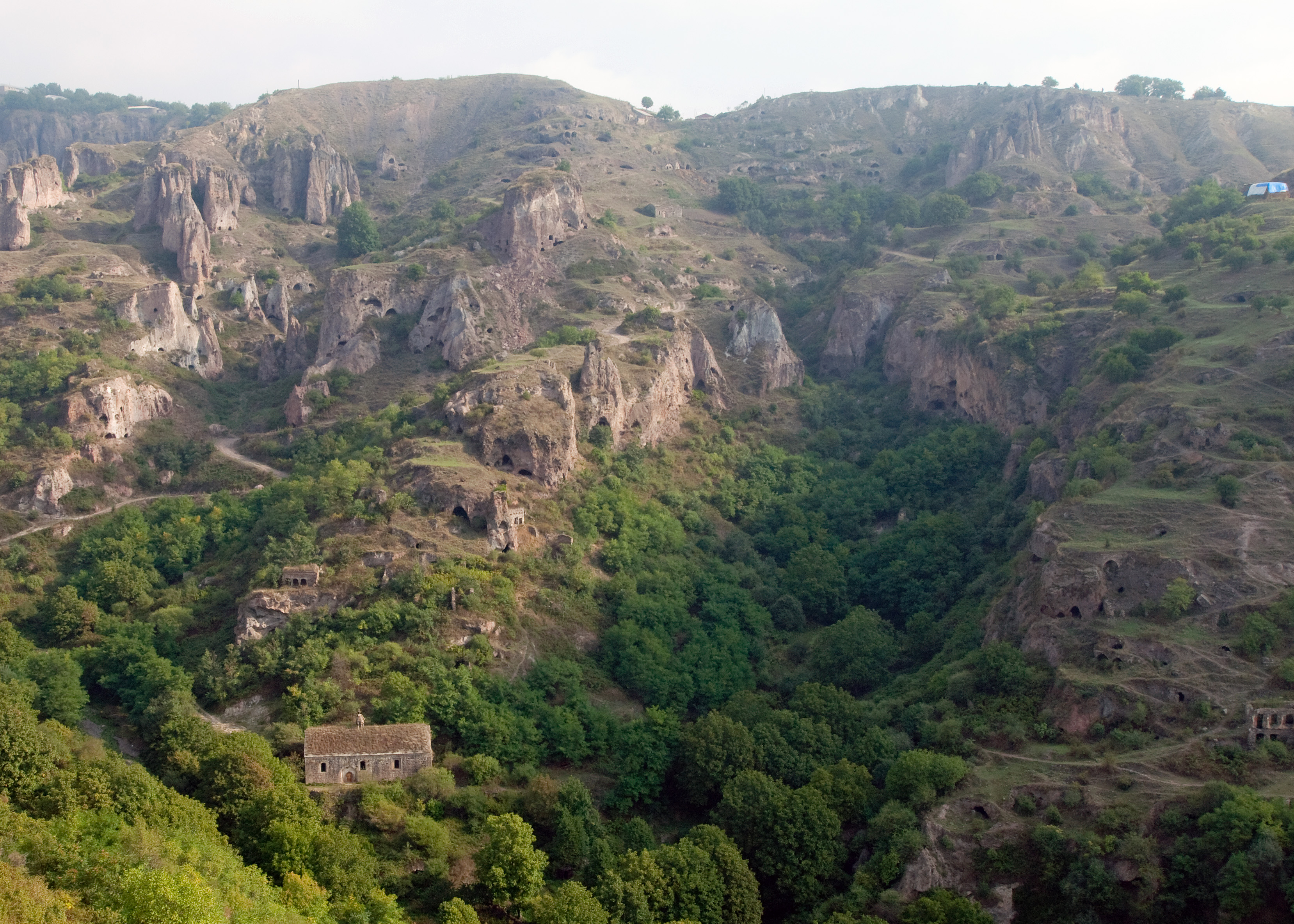 Fascinating cave dwellings in the cliff face. 45/5